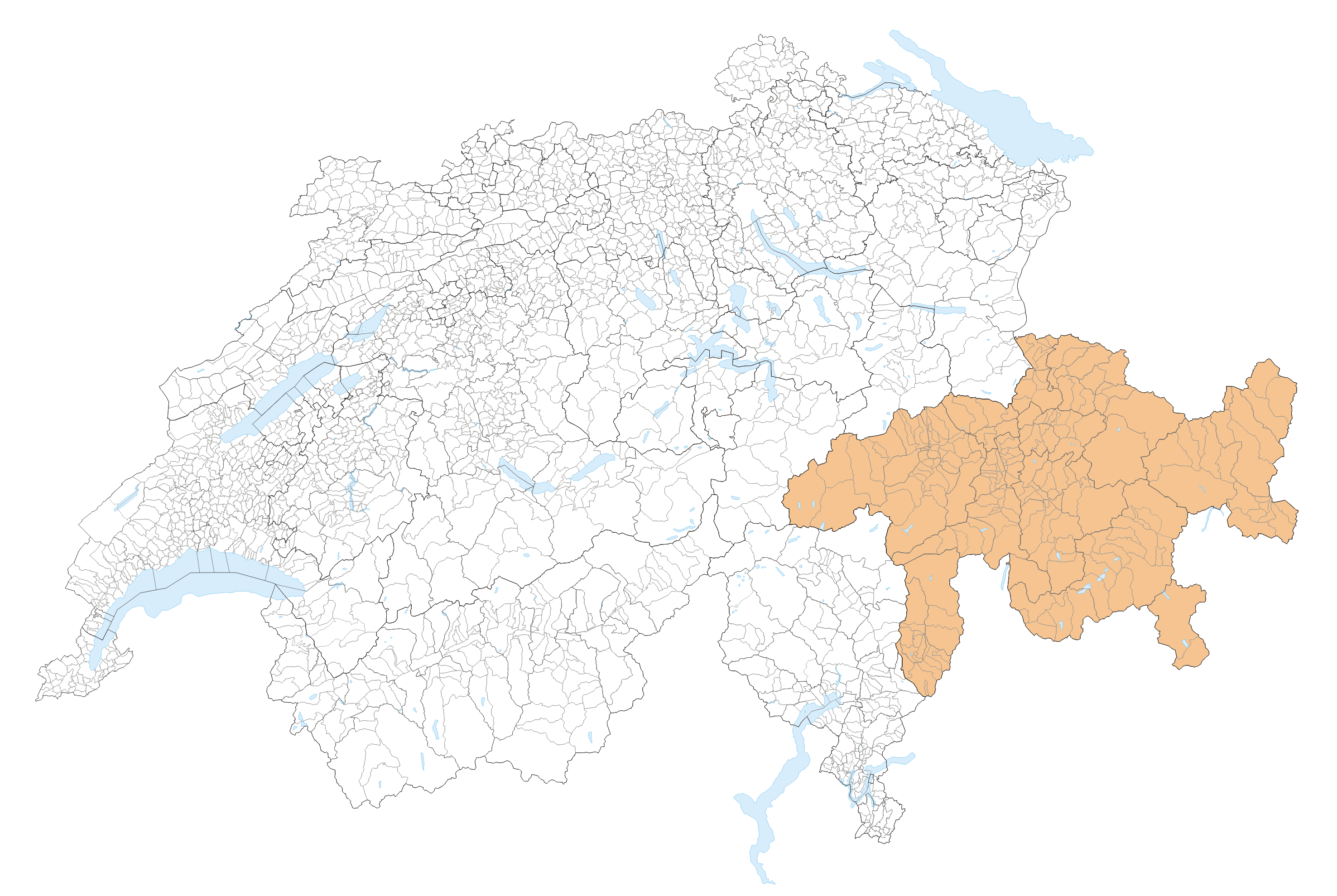 Kanton Graubünden